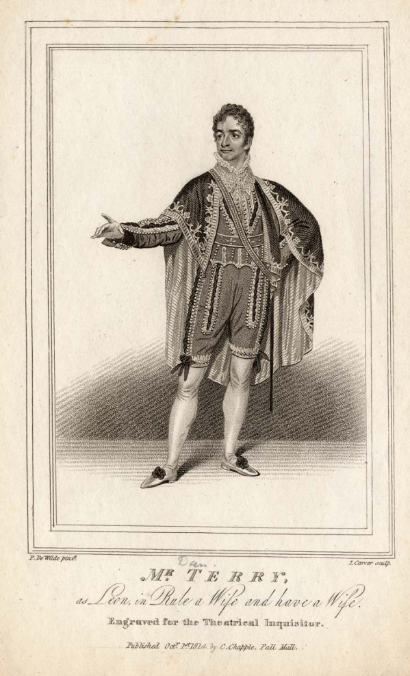 Actor Daniel Terry (1780?–1829) in the role of Leon from Rule a Wife and Have a Wife by John Fletcher